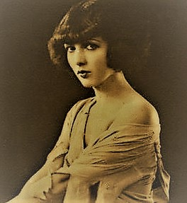 Sally Long